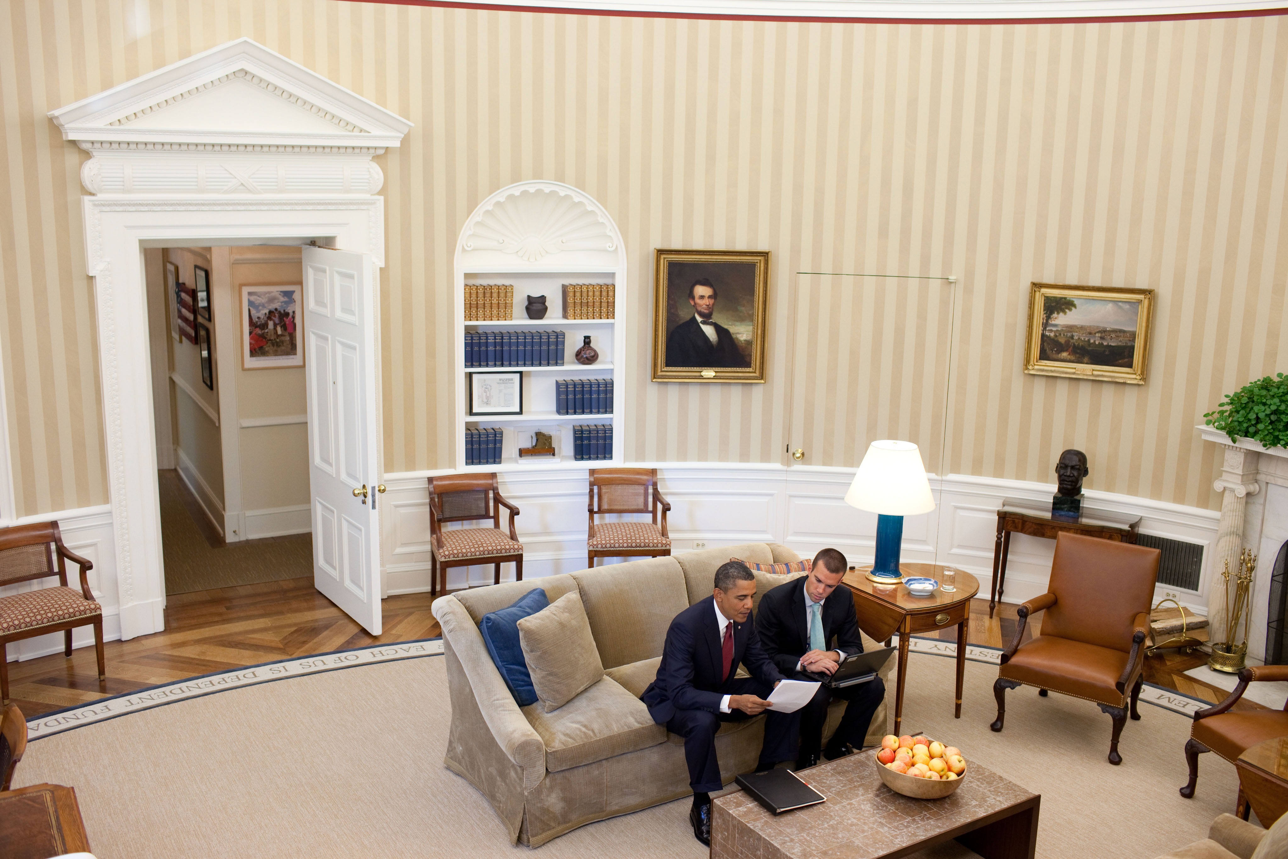 "Workers had left a ten-foot ladder in the Oval Office so I used the high vantage point to make this scene of the President and Jon Favreau editing a speech." (Official White House Photo by Pete Souza)